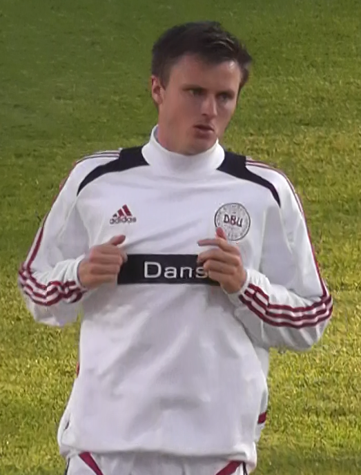 William Kvist warming up for Denmark